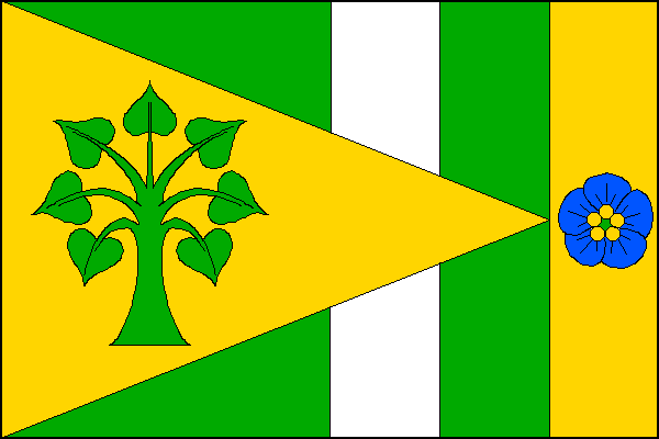 Municipal flag of Janův Důl village, Liberec District, Czech Republic.